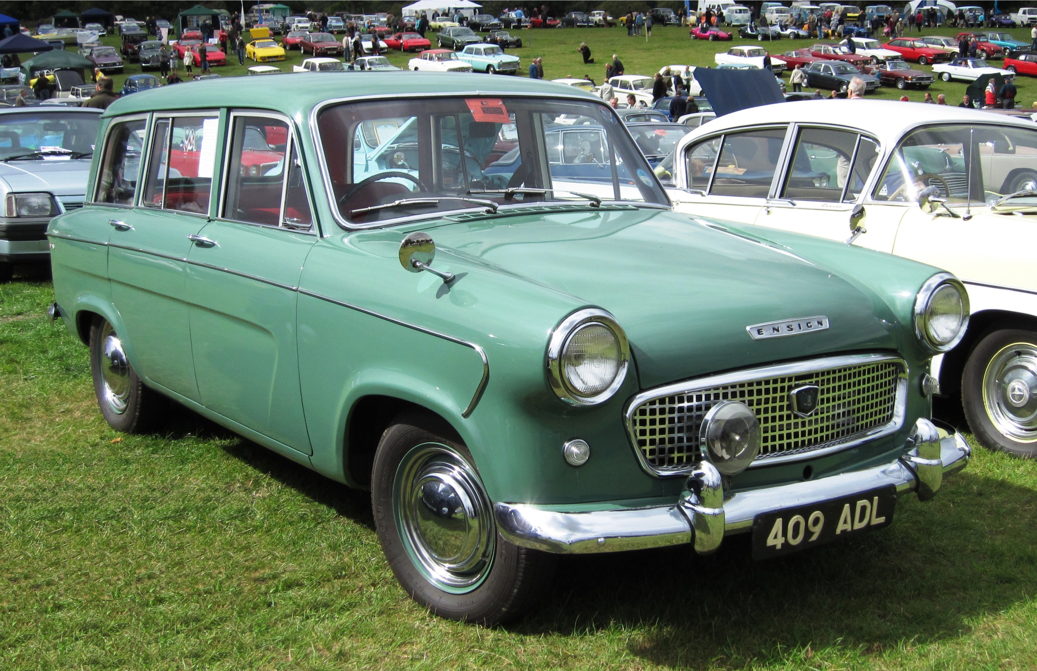 Standard Ensign estate at classic car show in Knebworth